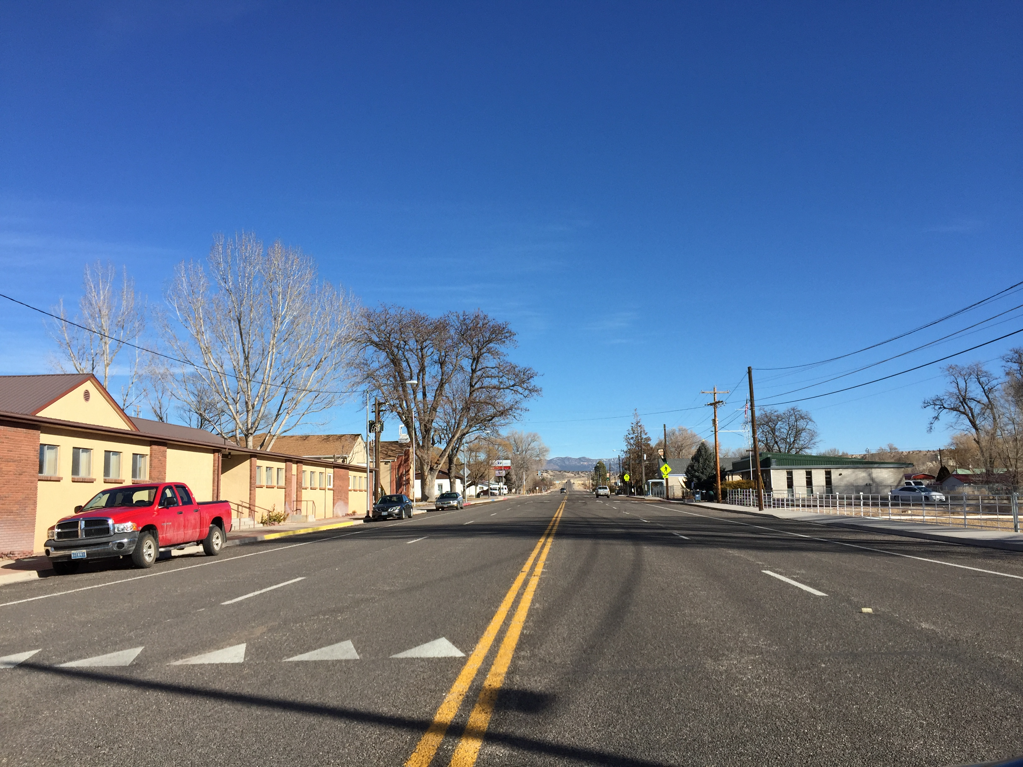 View east along Nevada State Route 319 in Panaca, Nevada